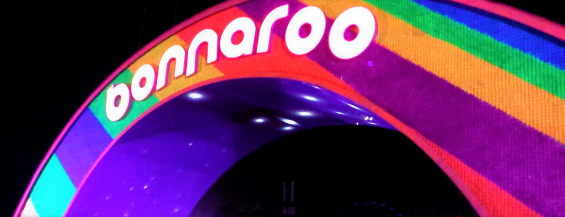 A photo I took after the ending of Bonnaroo 2016 of the main archway lit up